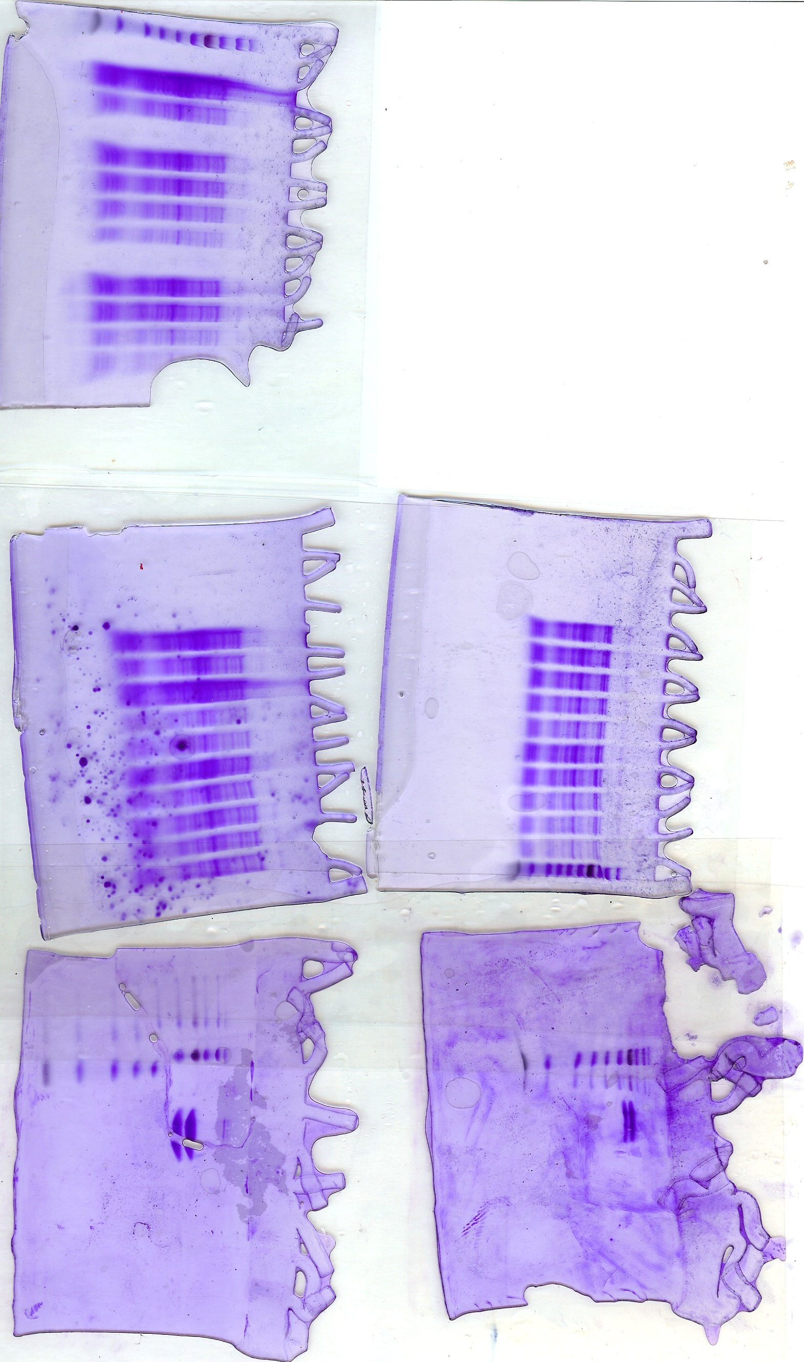 A SDS-PAGE gel of cell lysis